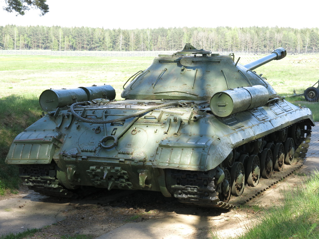 IS-3 heavy soviet tank, back side